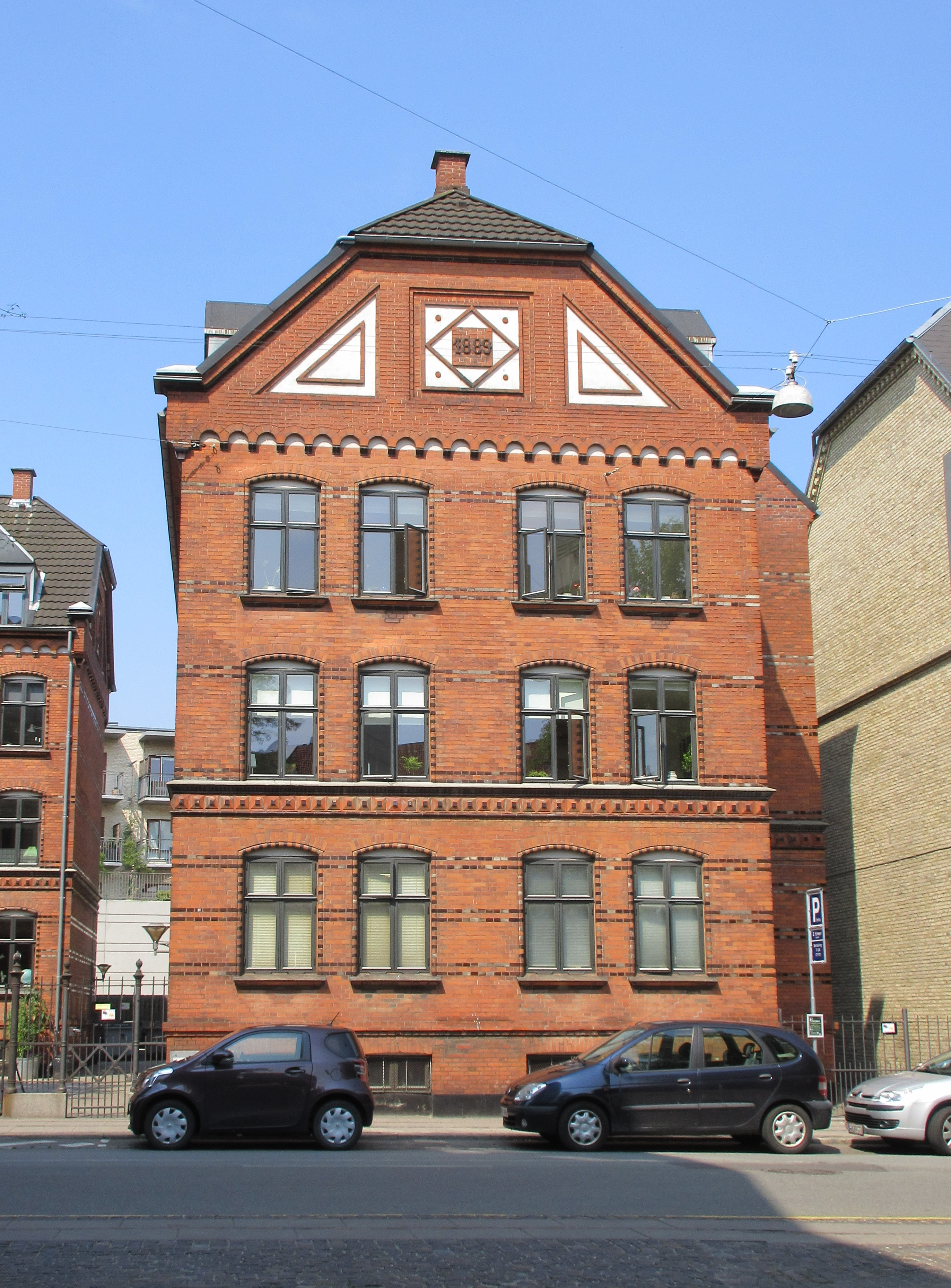 Building located next to Frederiksberg Fire Station on Howitzvej in Frederiksberg, Copenahgen, Denmark